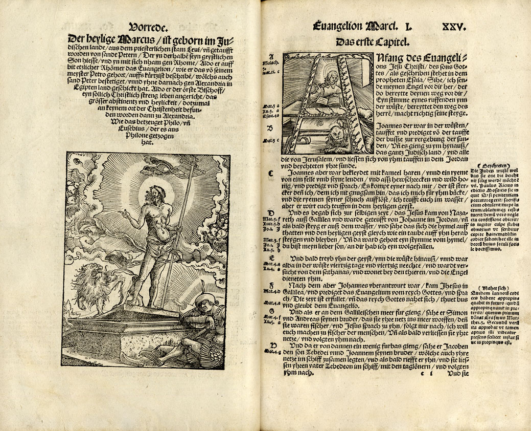 Preface of the gospel by Mark, catholic translation of the New Testament into German from Hieronymus Emser, an opponent of Martin Luther; published 1527 in Dresden, Saxony.